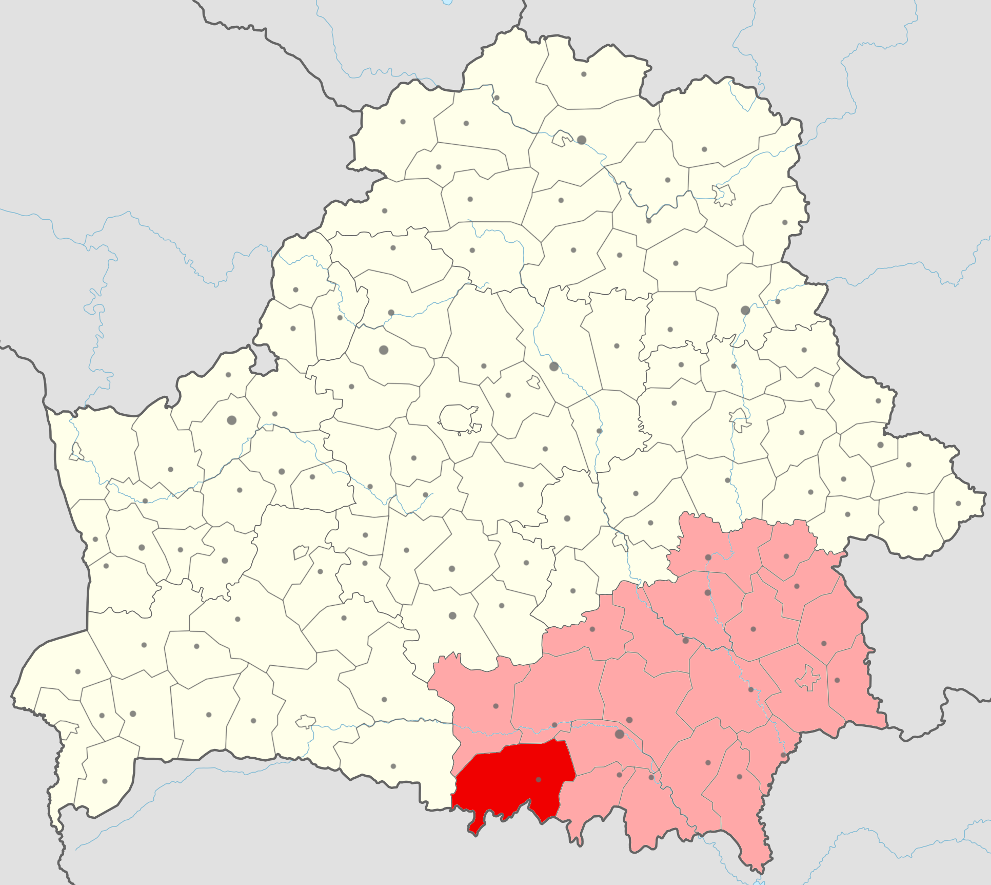 Location of Lieĺčycki rajon (red) in Homieĺskaja voblasć (light red) in Belarus.